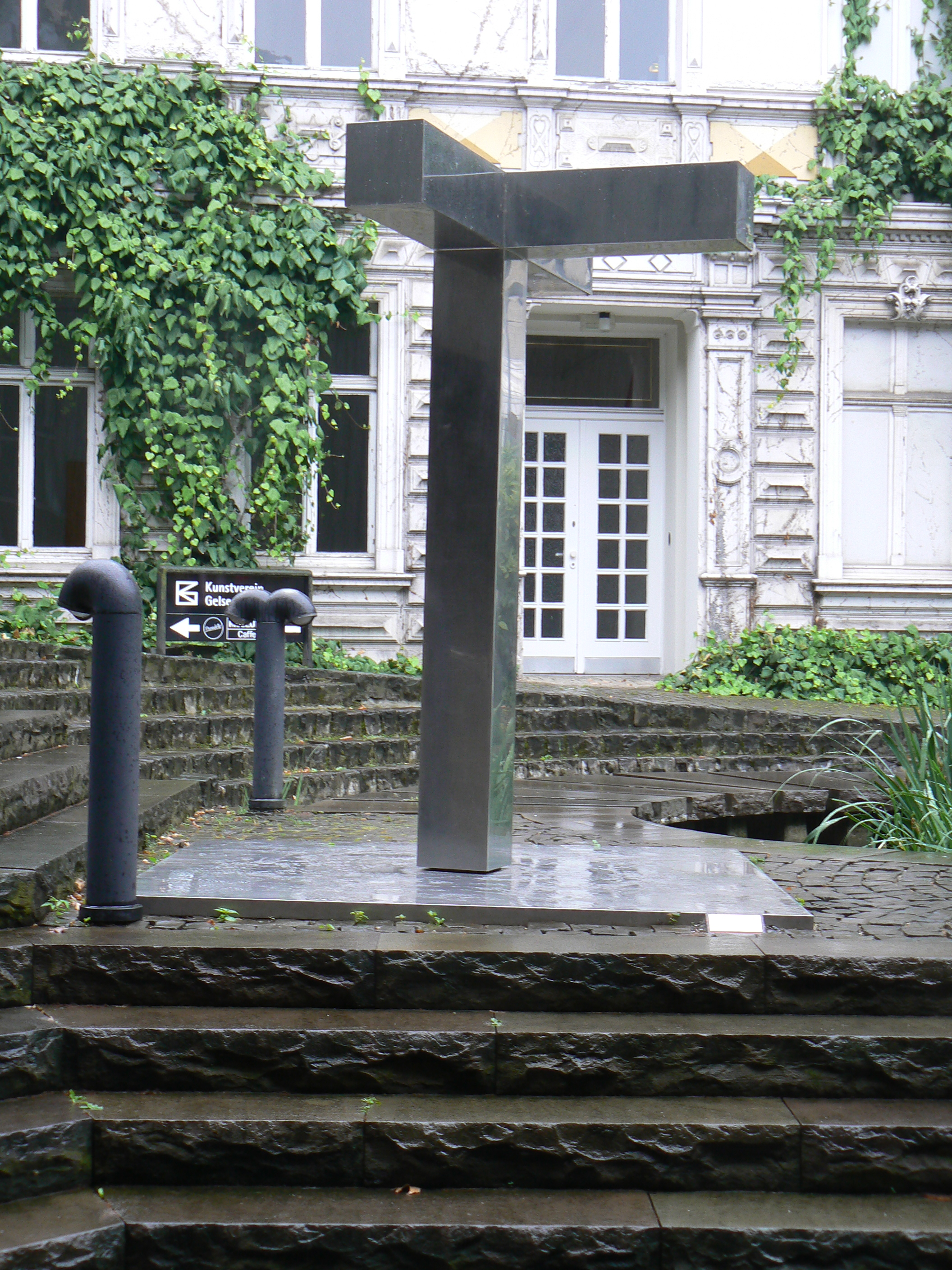 kinetic sculpture Untitled 1969 at the Städt. Museum in Gelsenkirchen-Buer/Germany